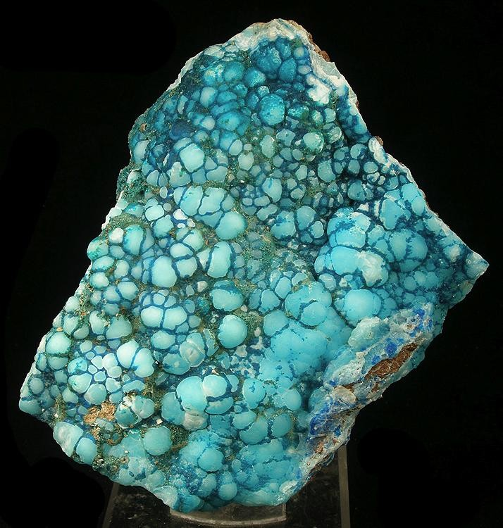 Hemimorphite, Veszelyite Locality: Laochang ore field (Laochang Mine), Eastern Sub-district, Gejiu Sn-polymetallic deposit, Gejiu County, Honghe Autonomous Prefecture, Yunnan Province, China (Locality at ) Size: 12.5 x 9.8 x 3.2 cm. A unique and beautiful new find from China of vivid, powder-blue hemimorphite botryoids highlighted or outlined by preferential bands of blue veszelyite. The hemimorphite is translucent. Veszelyite is a rare phosphate. This find was recovered in 2008 and appeared at the 2008 Munich Show.